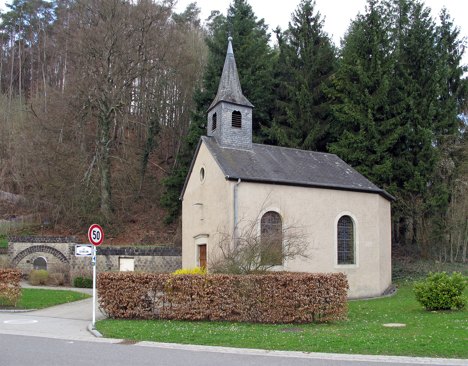 Chapel of Bour, Luxembourg